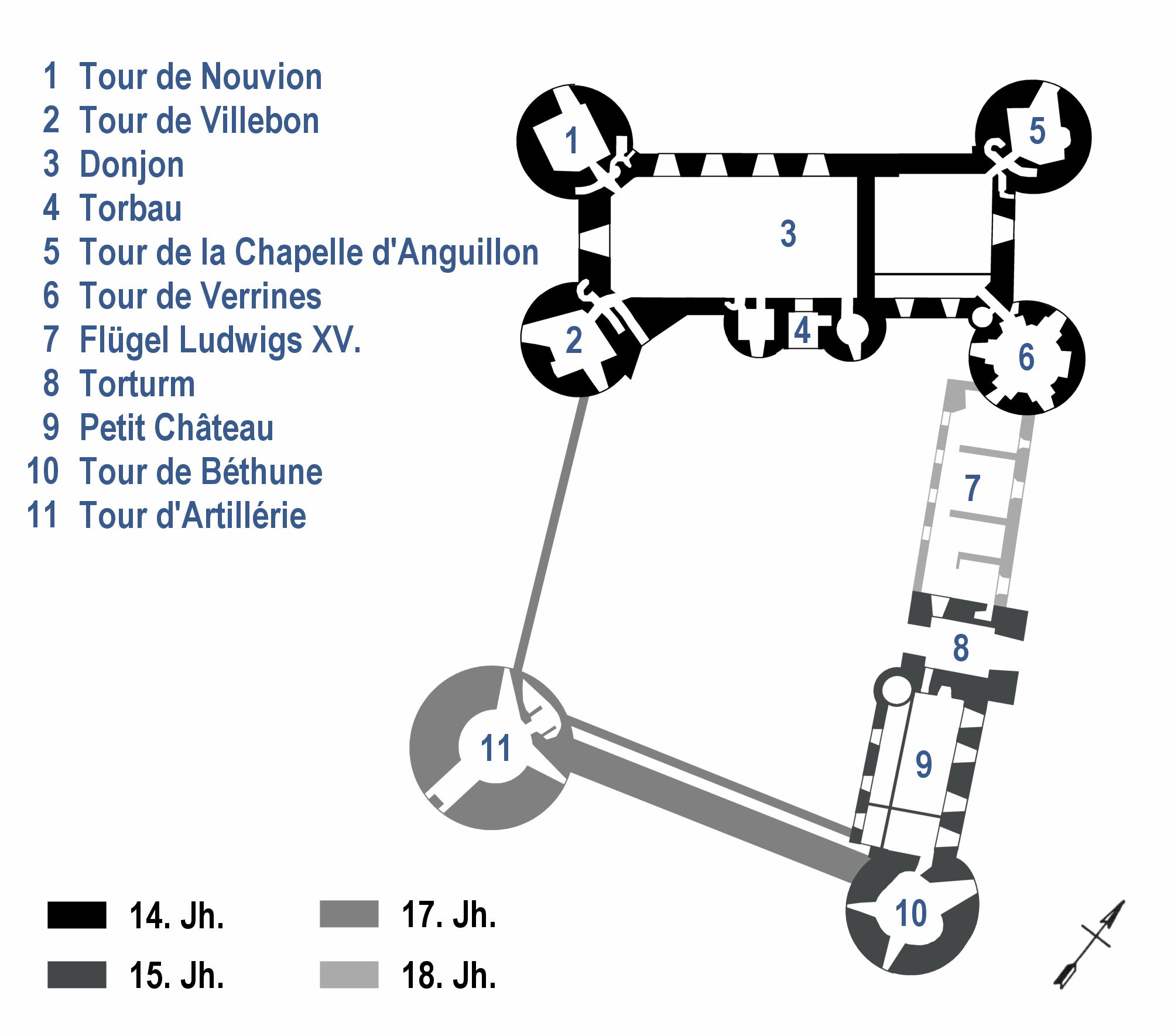 Floor plan of the castle in Sully-sur-Loire